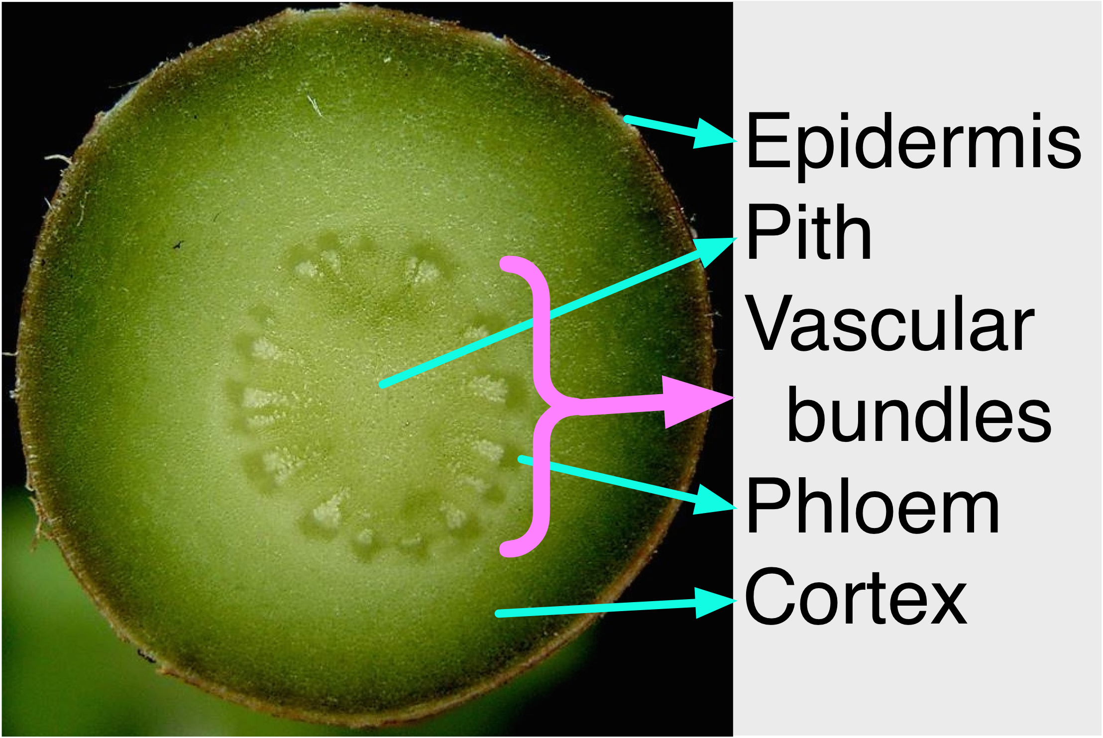 Based on image Crassula ovata5 ies.jpg by Frank Vincentz. Cropped and labelled by me.